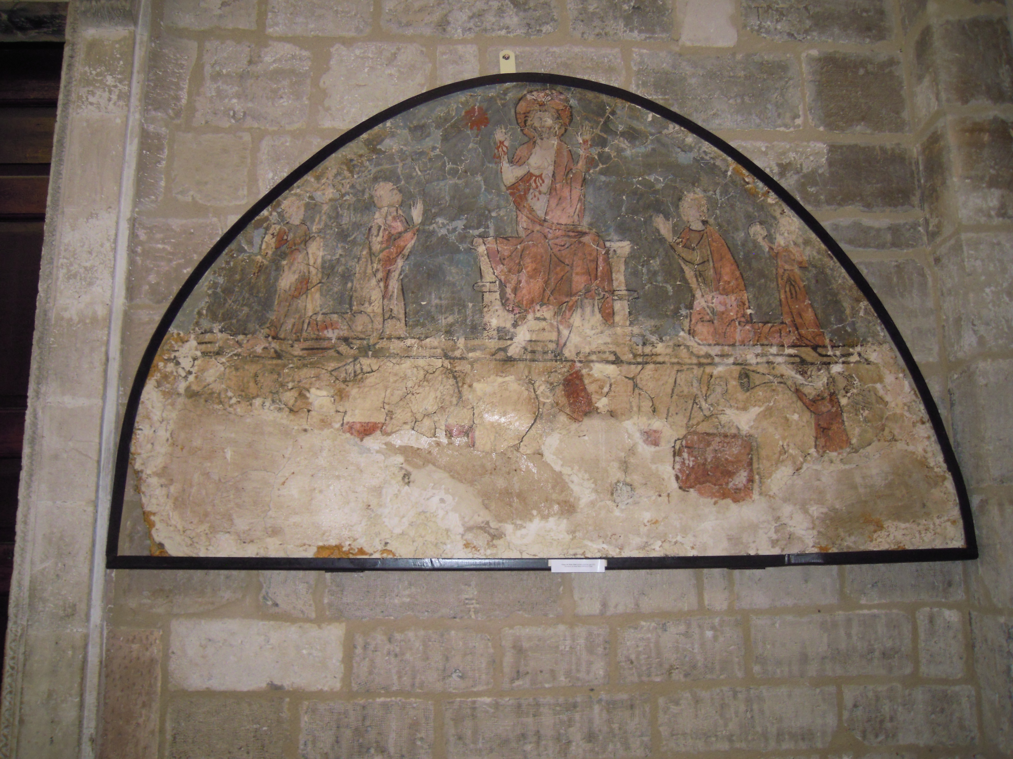 Fresco of the Last Judgement Day early 13th Century from disappeared Mon. of Santa María de Vileña now exhibited at Museo del Retablo in Burgos.